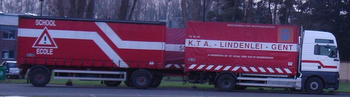 Truck and trailer of a driving school, Voskenslaan, Gent.